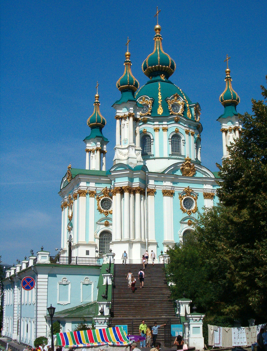 St. Andriy's Church in Kyiv